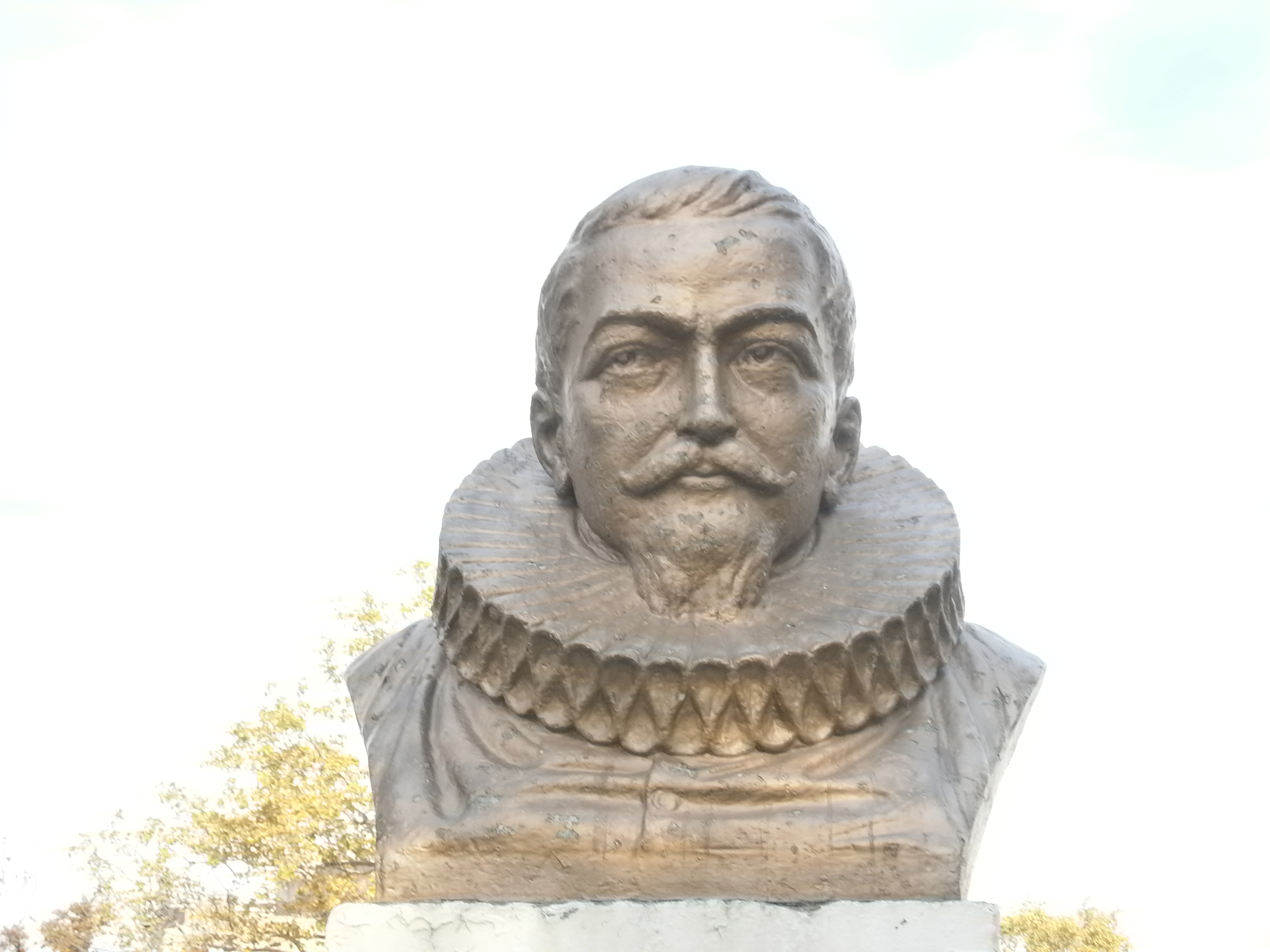 Henry Hudson (bust) Riverview Park Jersey City Heights